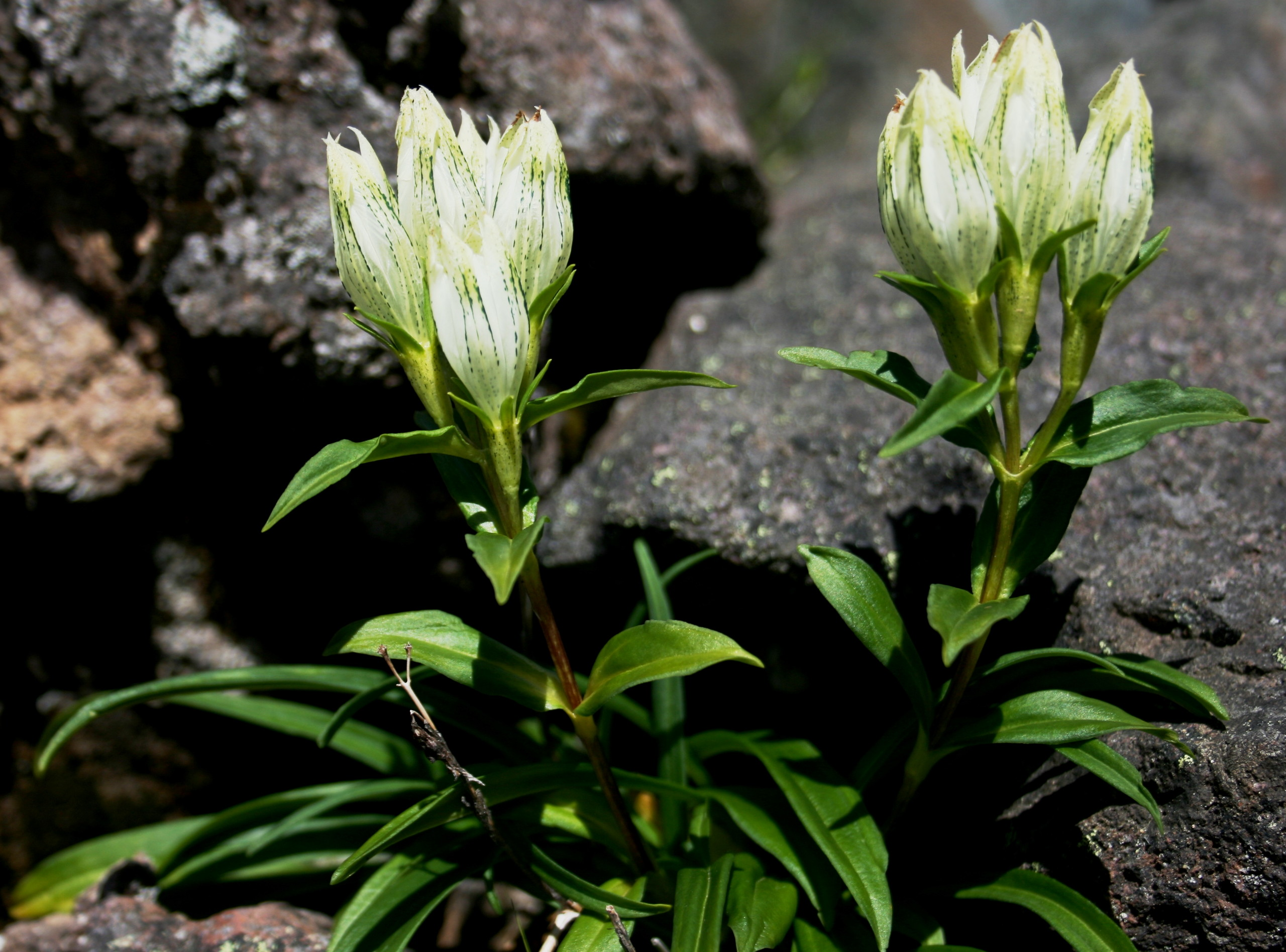 Gentiana algida in Mount Ontake, Japan.